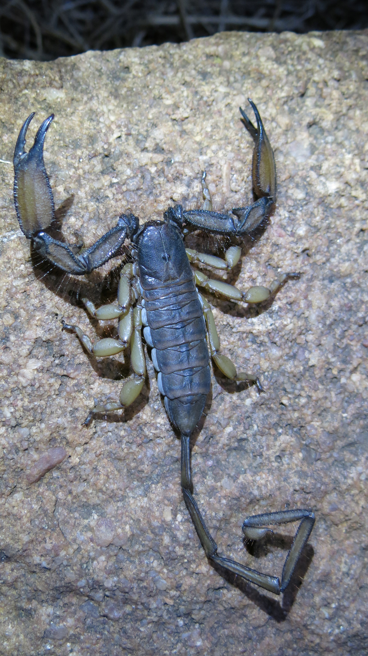 Hadogenes troglodytes, Soutpansberg, South Africa